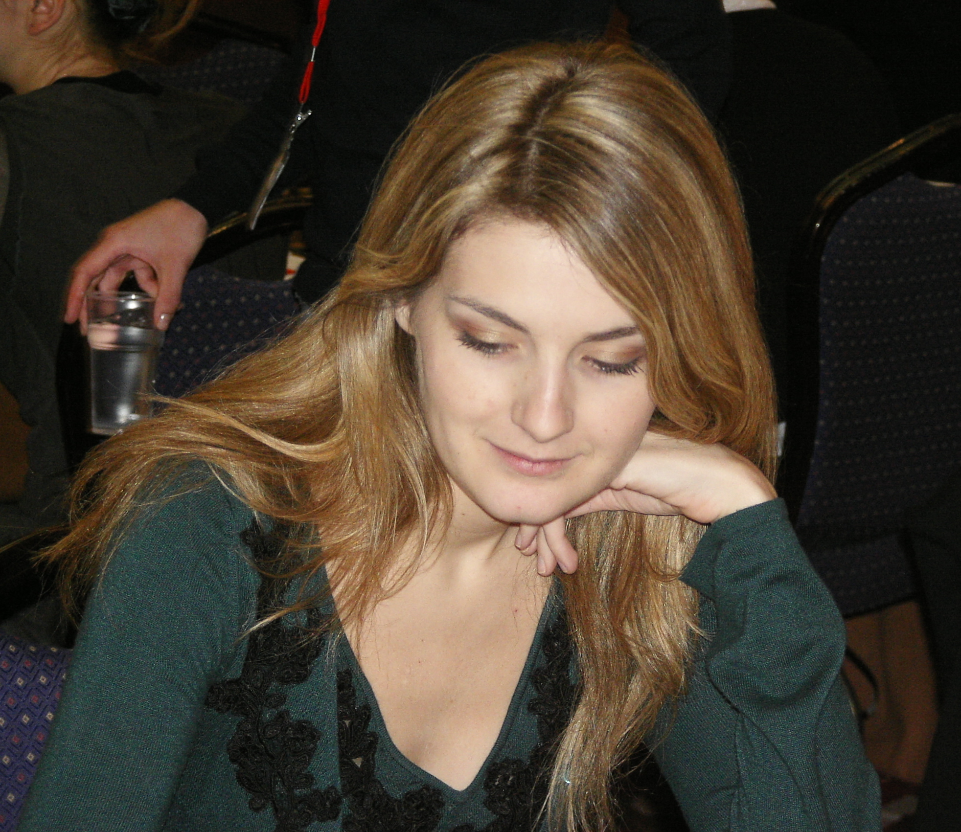 WGM Sophie Milliet (France), Heraklion 2007